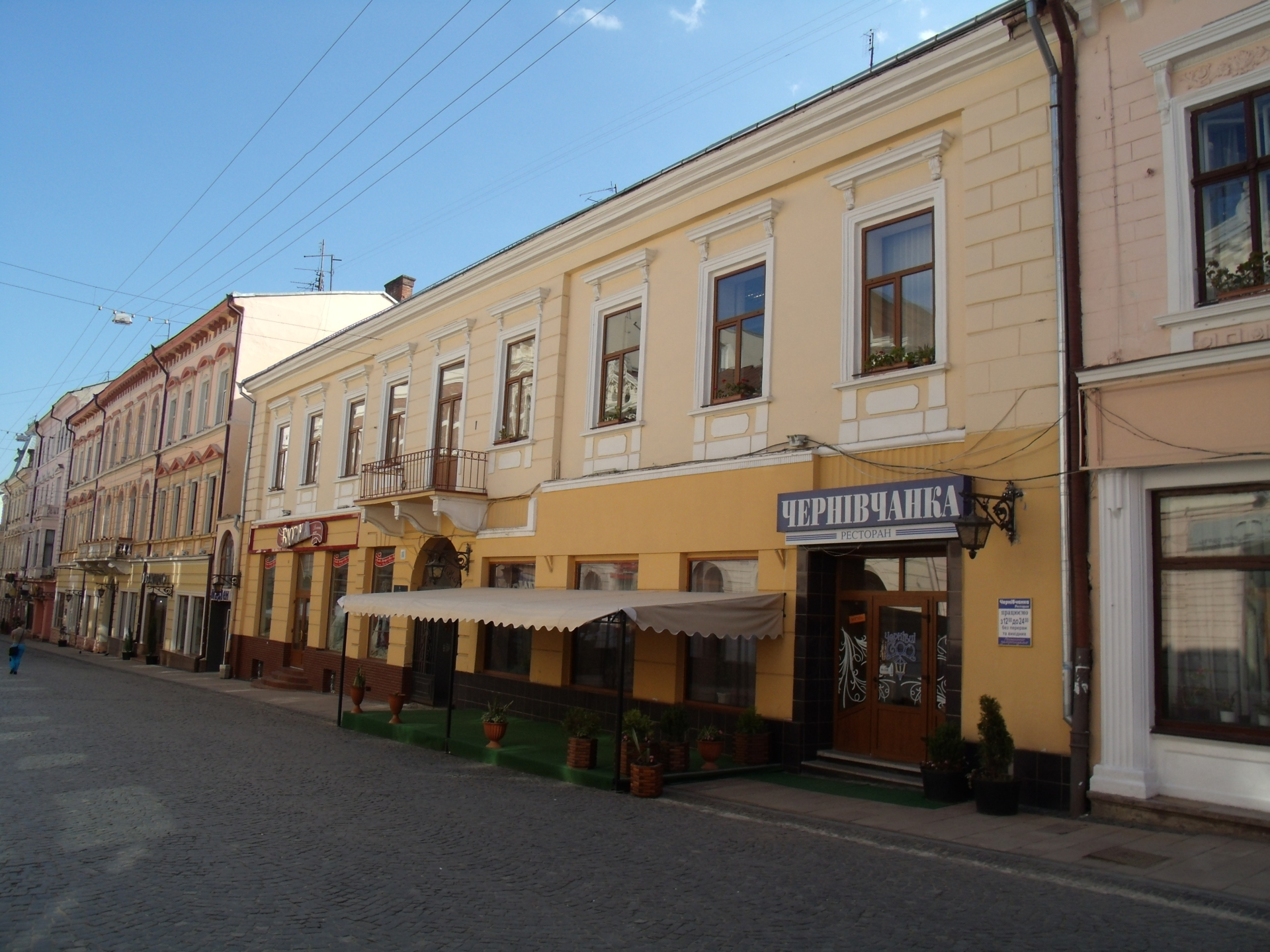 Chernivtsi, Kobylianska house 11